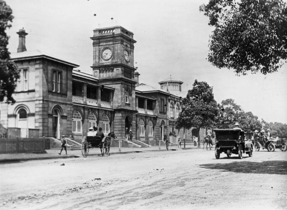 Street scene outside the Post Office, Toowoomba, ca. 1909. Motor vehicles mix with horses and horsedrawn vehicles in the street. Pedestrians are walking on the footpath and two gentlemen are standing in the doorway of the post office. The dome from the Courthouse can be seen over the roof of the Post Office.